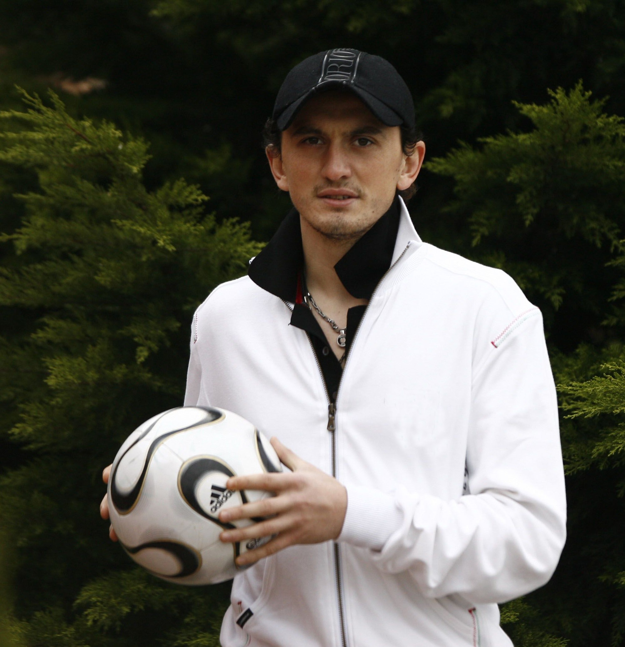 Tuncay Şanlı